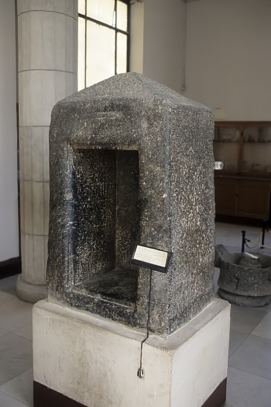 Granite shrine in the archaeological museum of Ismailia, found 1887/1888 in el-Arish, North Sinai, Egypt